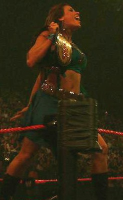 Mickie as Women's Champion